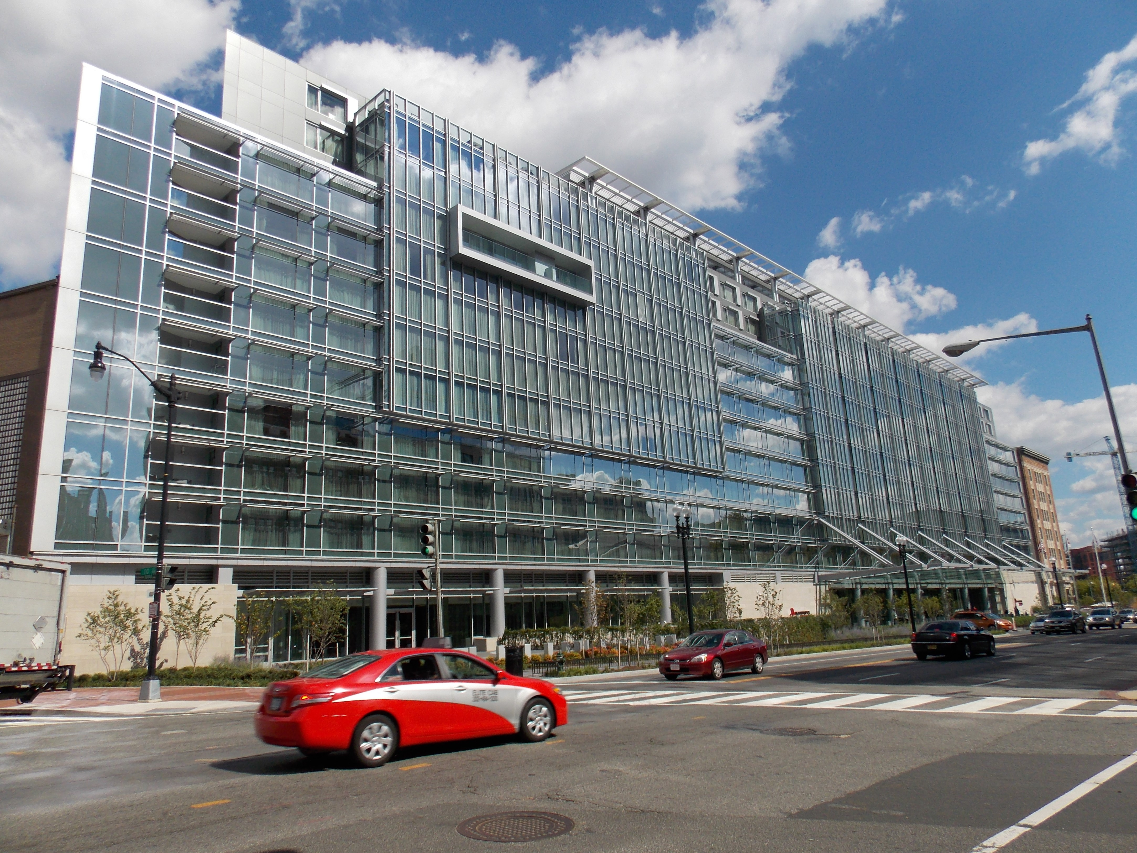 Washington Marriott Marquis in downtown Washington, D.C.